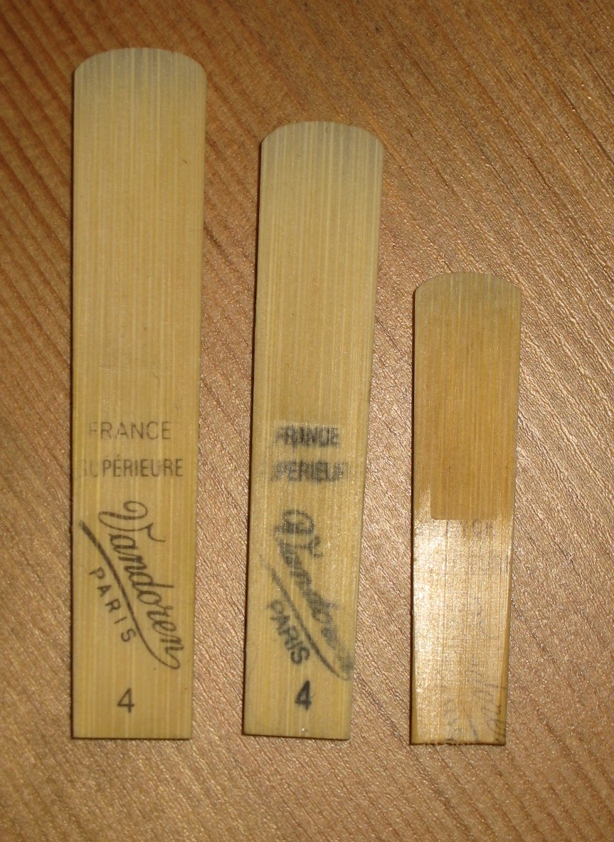 Comparison of reed sizes, b-flat, e-flat, and a-flat